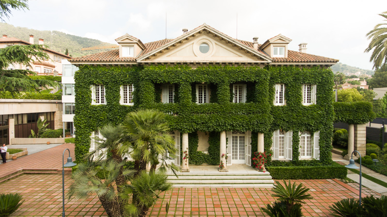 IESE Barcelona Headquarters